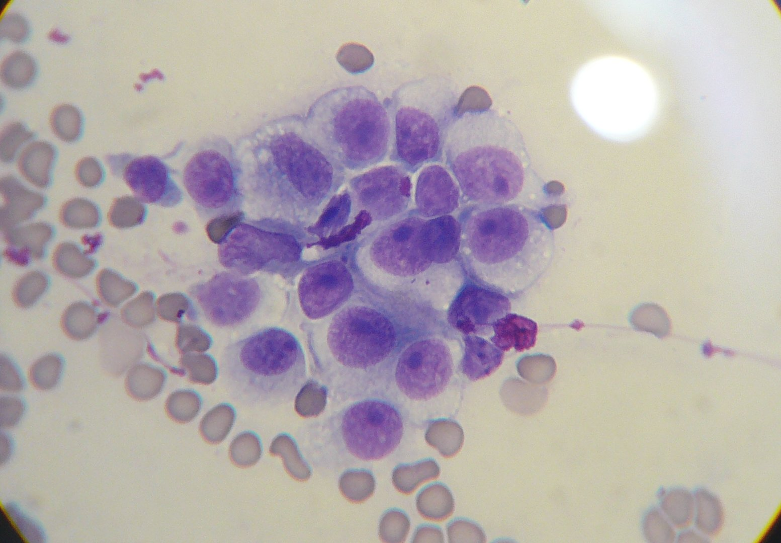 Cytology from a needle aspiration biopsy of a canine transmissible venereal tumor. Slide was stained with a modified Wright's stain.